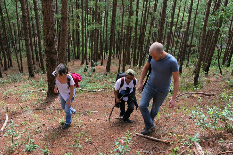 The trail to Langbiang Peak